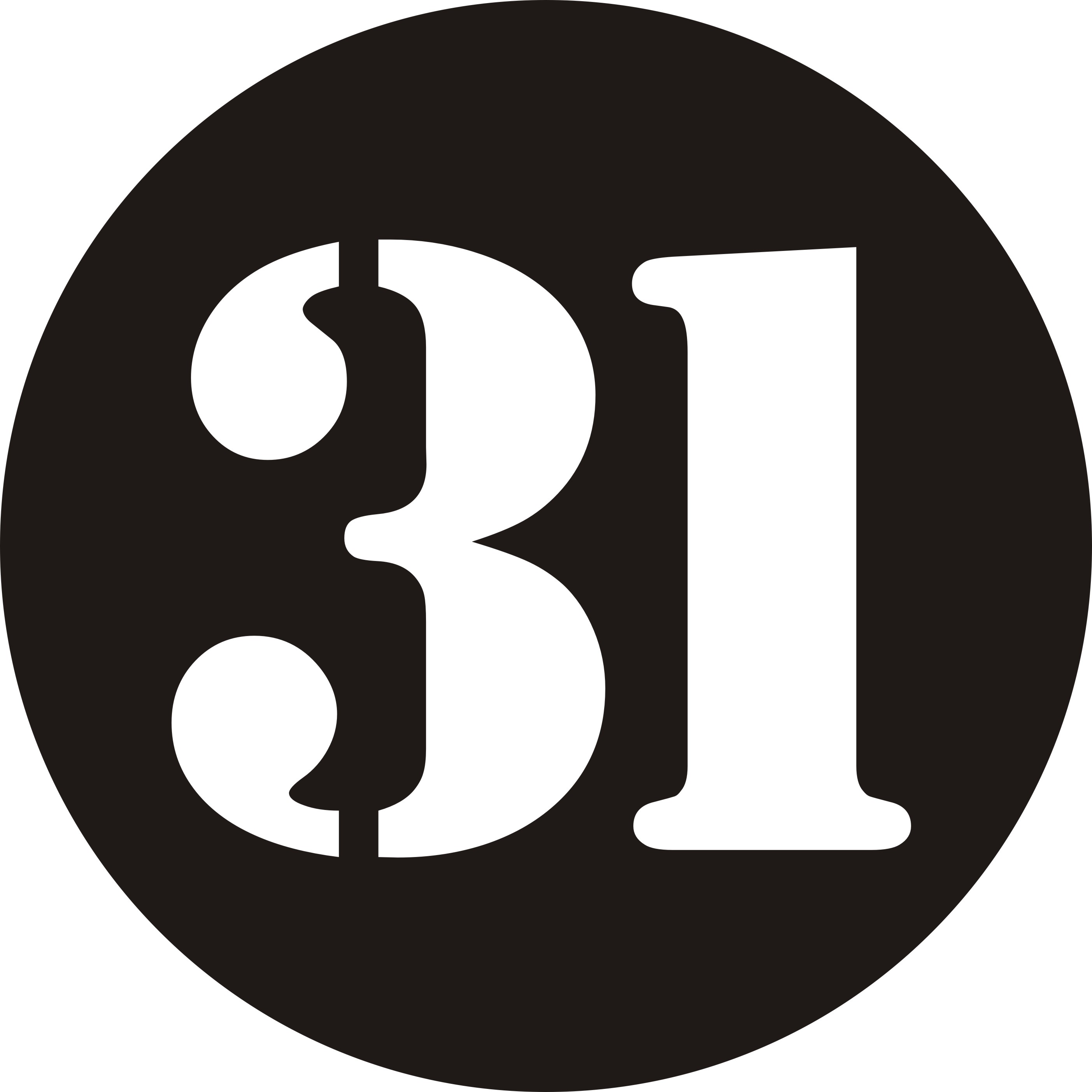 Logo of the "Strategy-31" - strategy of protest actions in defense of Article 31 (Freedom of assembly) of the Russian Constitution.